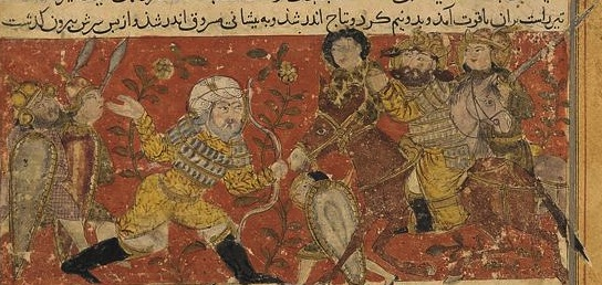 Folio from a Tarikhnama (Book of history) by Balami